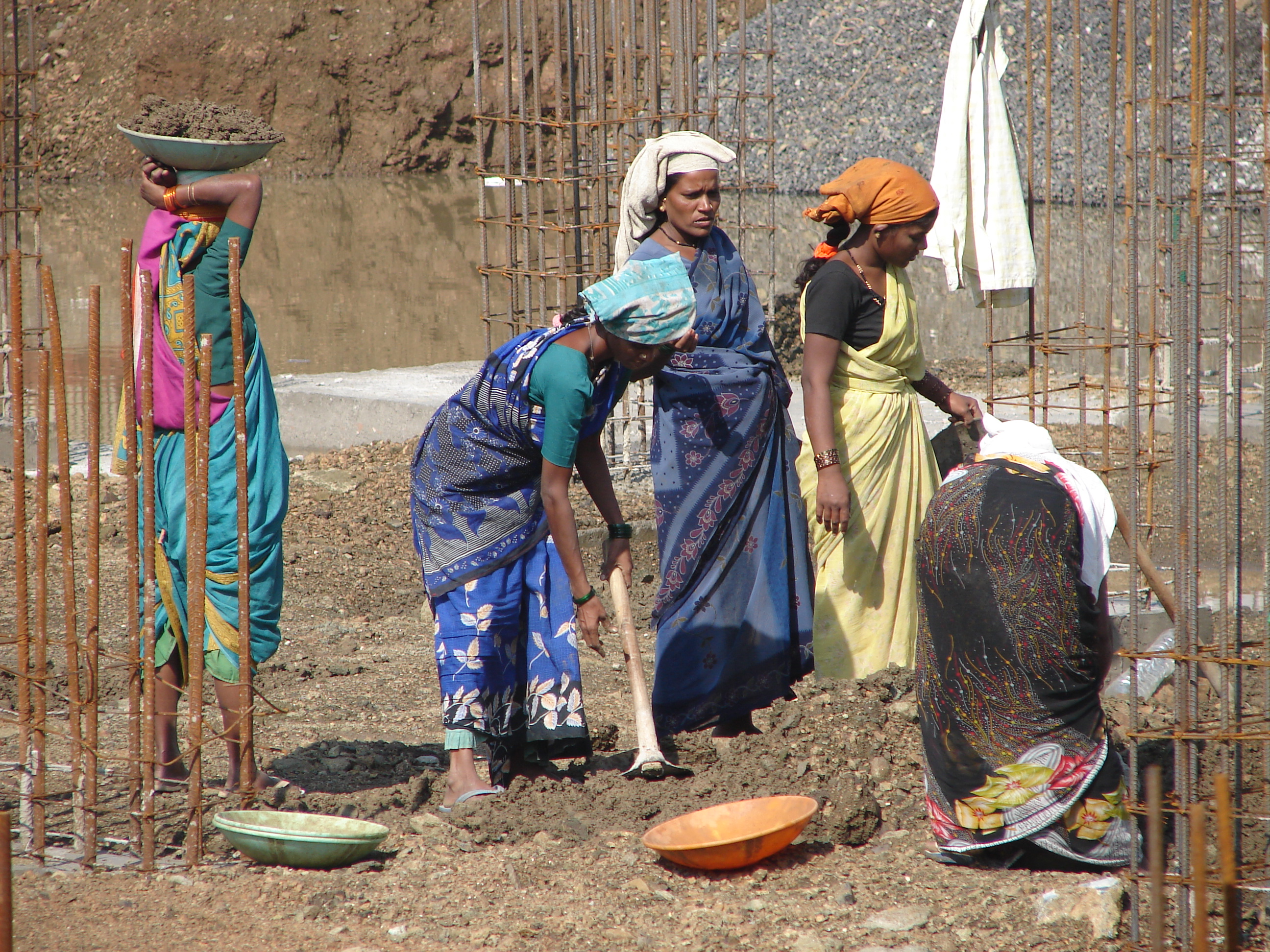 A Construction Site in Pune, India